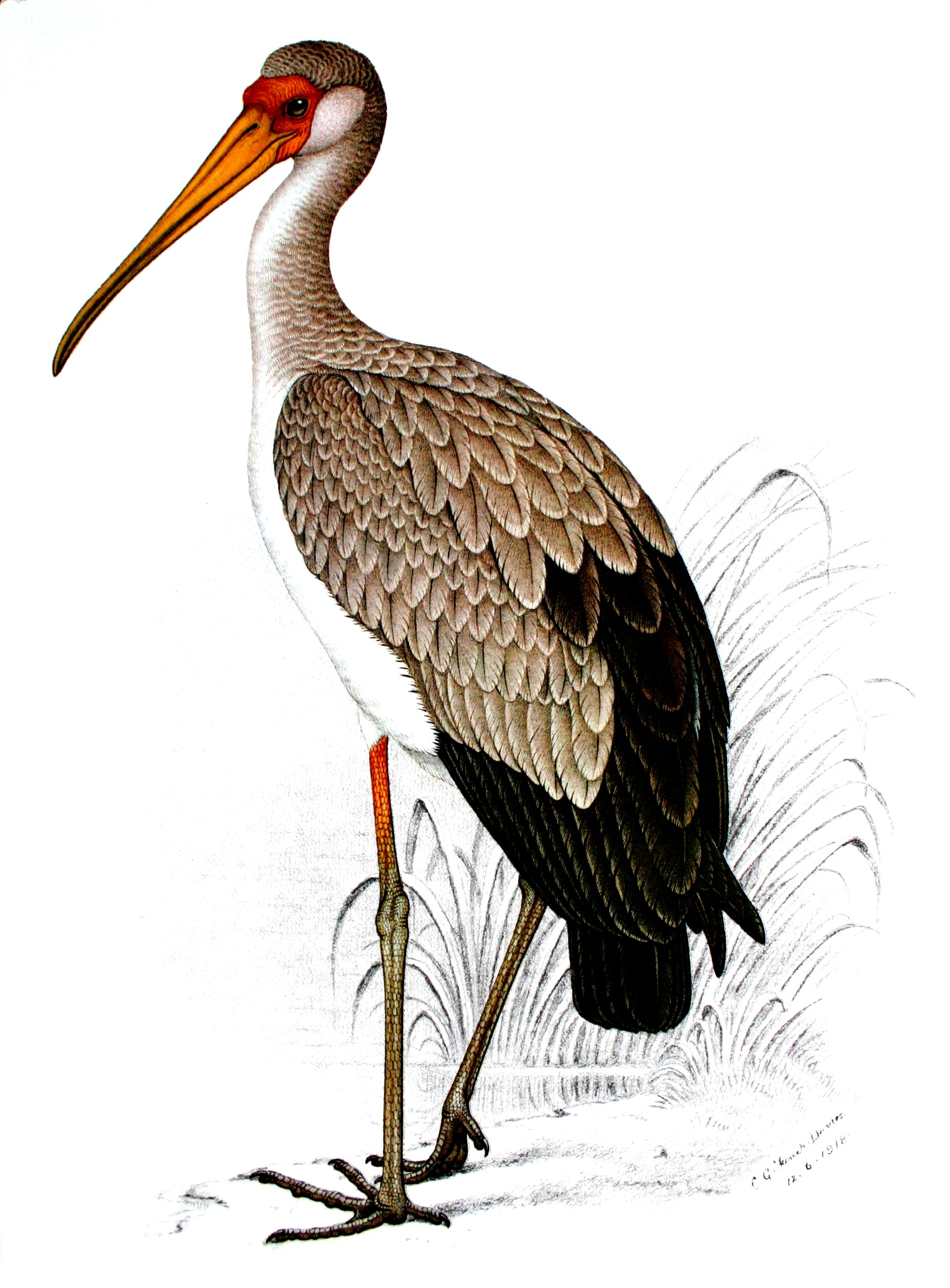 Yellowbilled stork (Mycteria ibis)